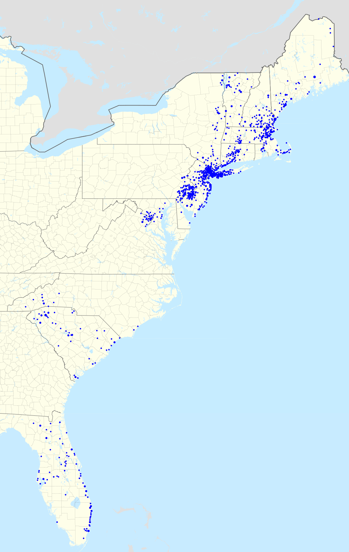 Footprint of TD Bank. Zip codes with more than one branch have progressively larger points.